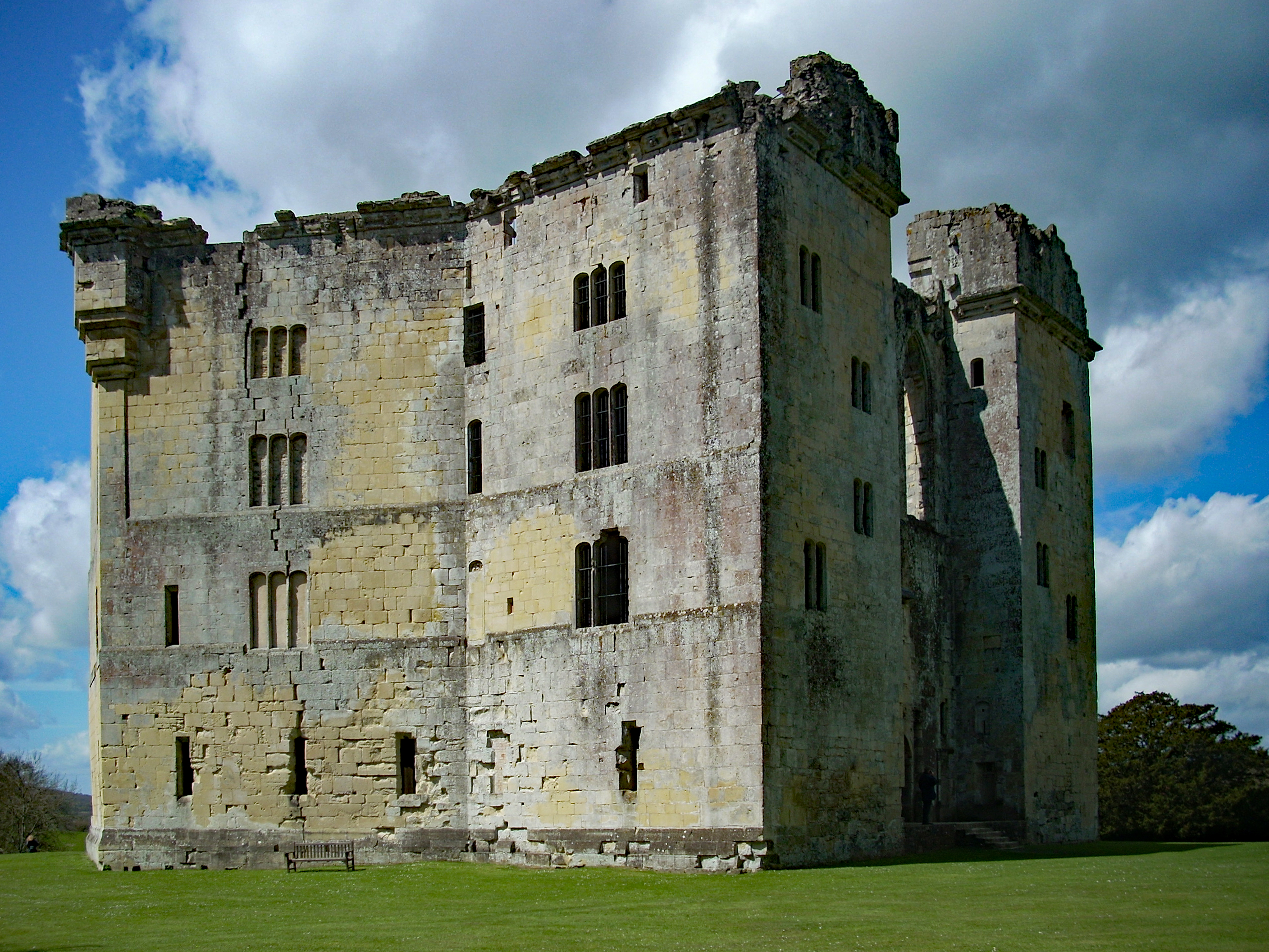 Old Wardour Castle, near Tisbury, Wiltshire, UK.